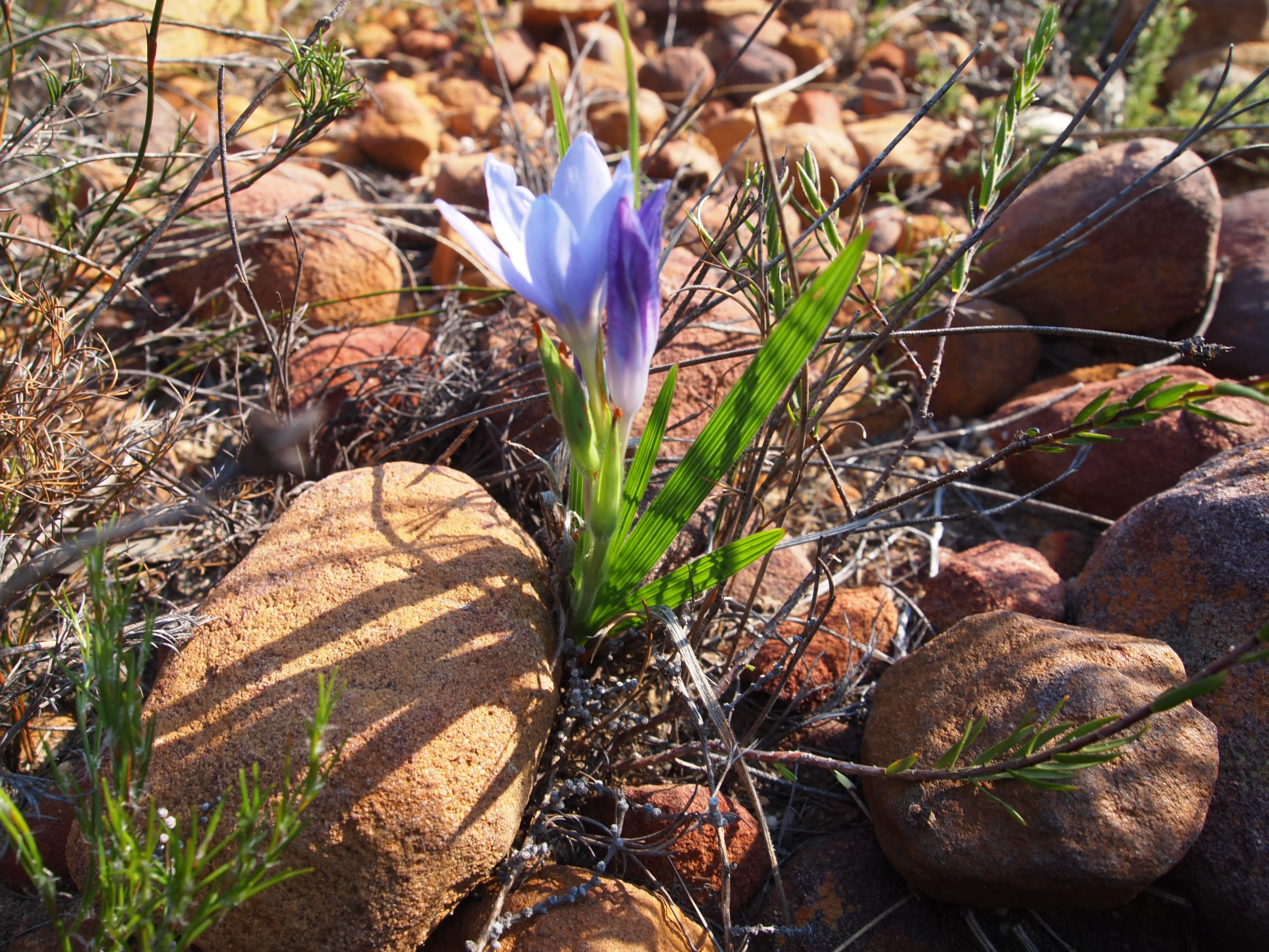 Table Mountain Cape Town